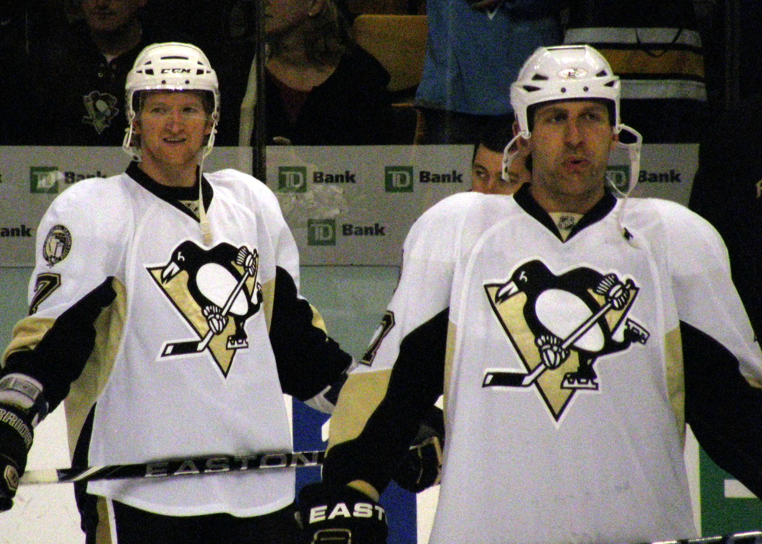 7 Paul Martin (D) and 17 Michael Rupp (C) - PIT Penguins Photos from the Pittsburgh Penguins at Boston Bruins NHL game on 2011-01-15, TD Banknorth Garden